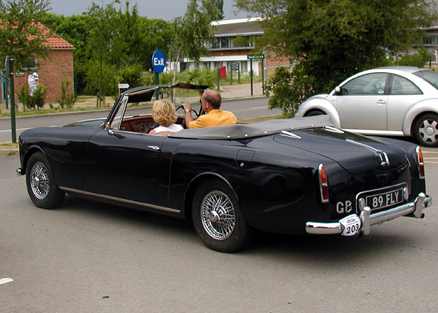 1963 Alvis TD21 at a Classics Rally in Bristol, England. First registered 2 September 1963, 2993cc